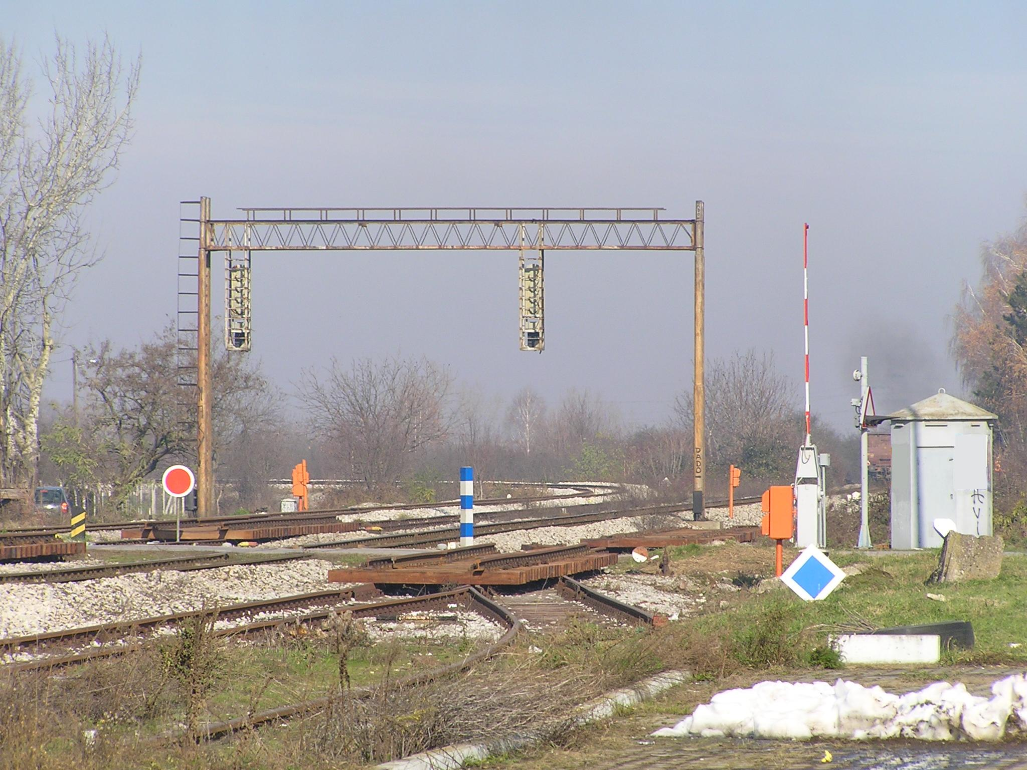 The split of the branch lines of Croatian part of Paneuropean Coridor 10, left towards Osijek (line in repair), straight towards Borovo Naselje (Vukovar,Dalj)